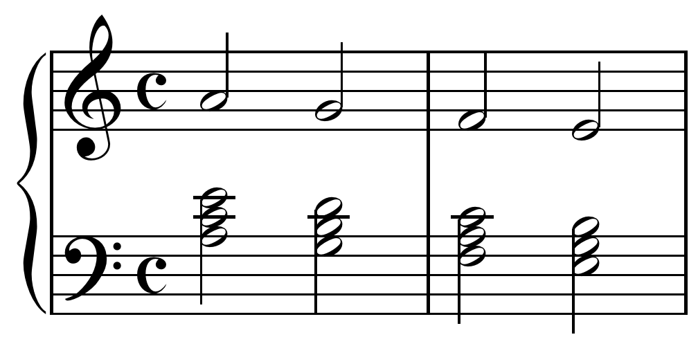 Lament bass without chromatic semitones: descending tetrachord in a minor: scale degree 8-♭scale degree 7-♭scale degree 6- scale degree 5 (a-g-f-e).